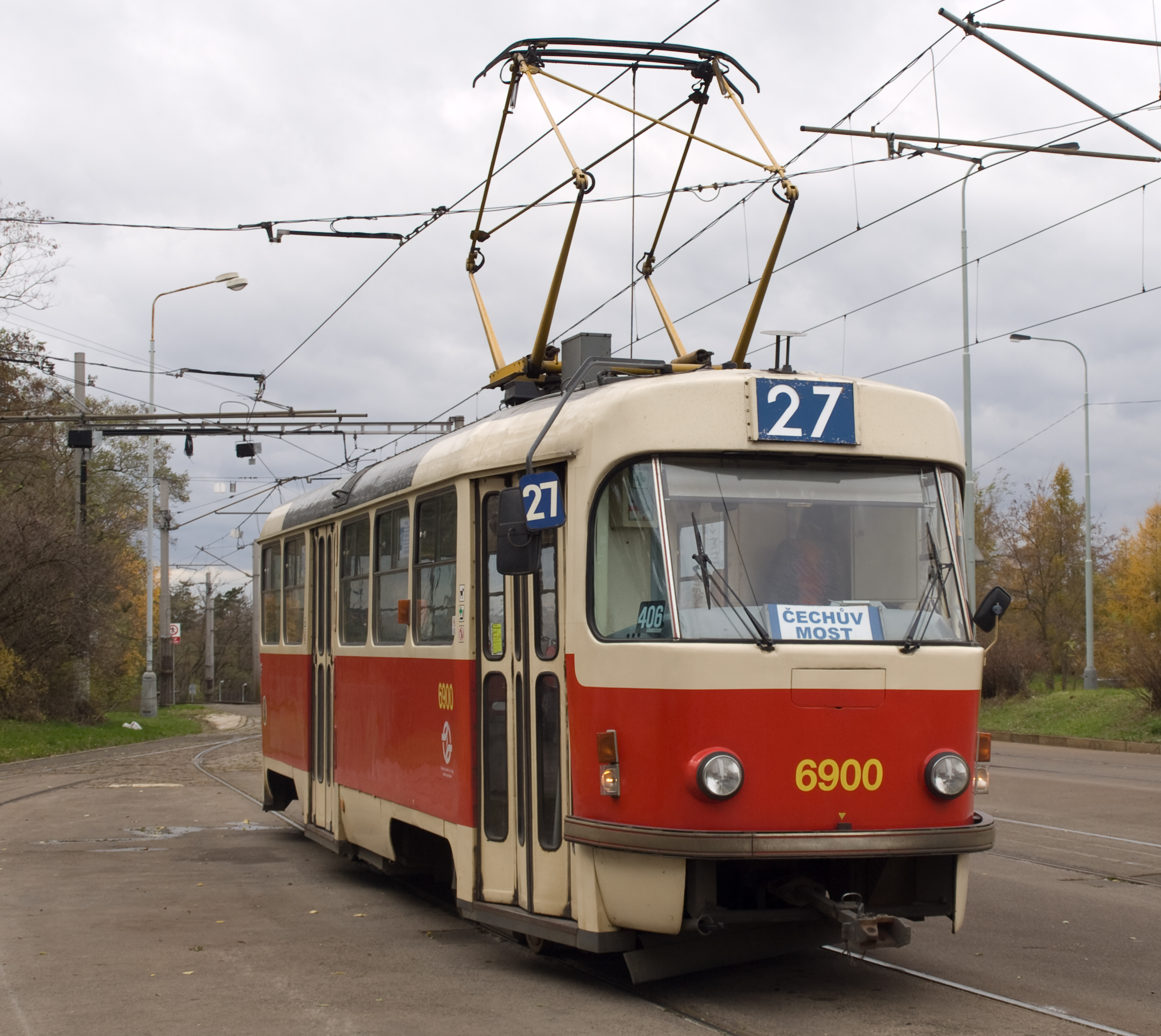 Levského tram loop, Tatra T3 registration number 6900 at line 27, Prague